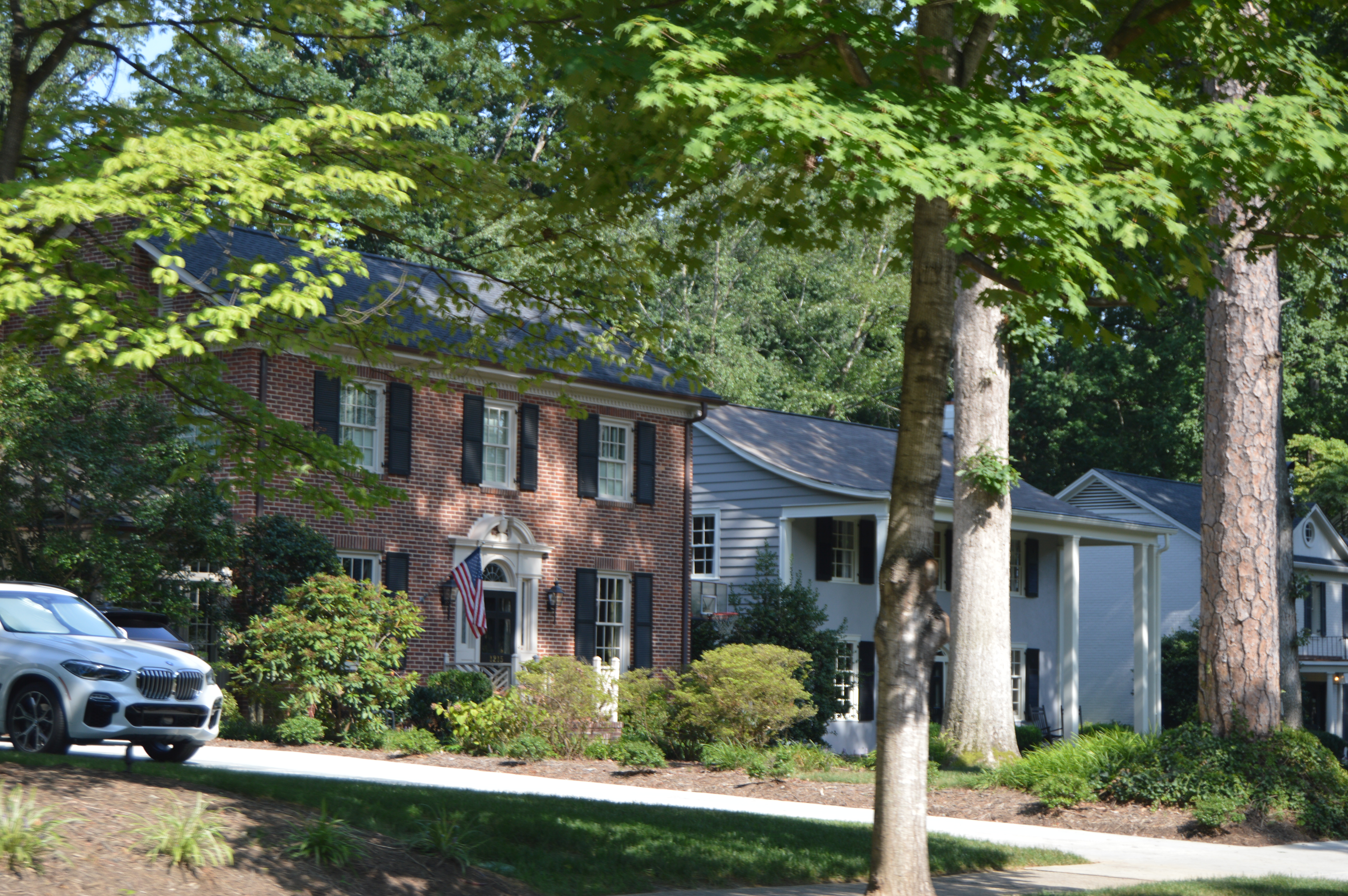 Houses on the eastern side of the 1200 block of Biltmore Drive in Charlotte, North Carolina, United States. This block is part of the Pharrsdale Historic District, a historic district that is listed on the National Register of Historic Places.